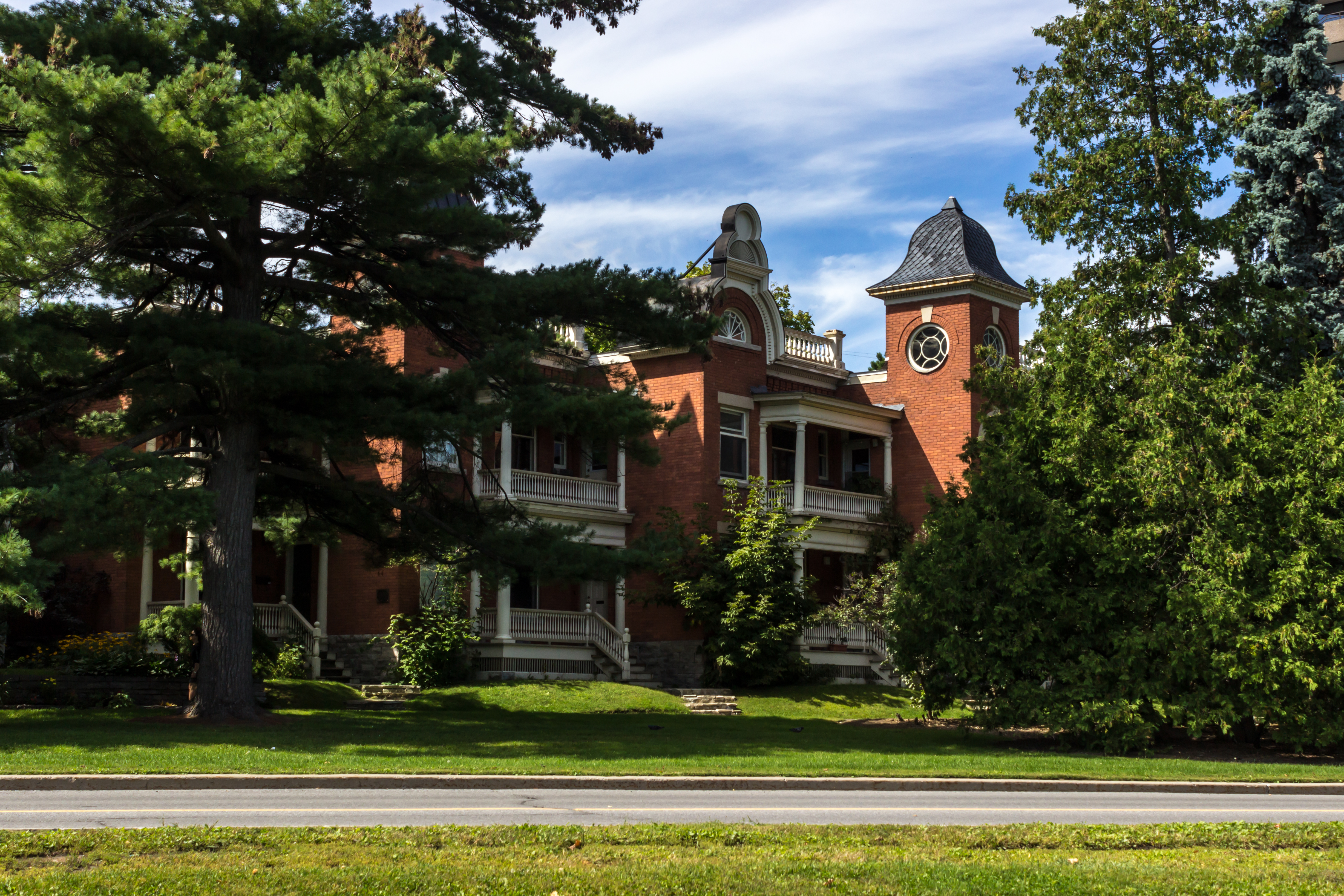 The Queale Terrace at 304-312 Queen Elizabeth Driveway, Ottawa